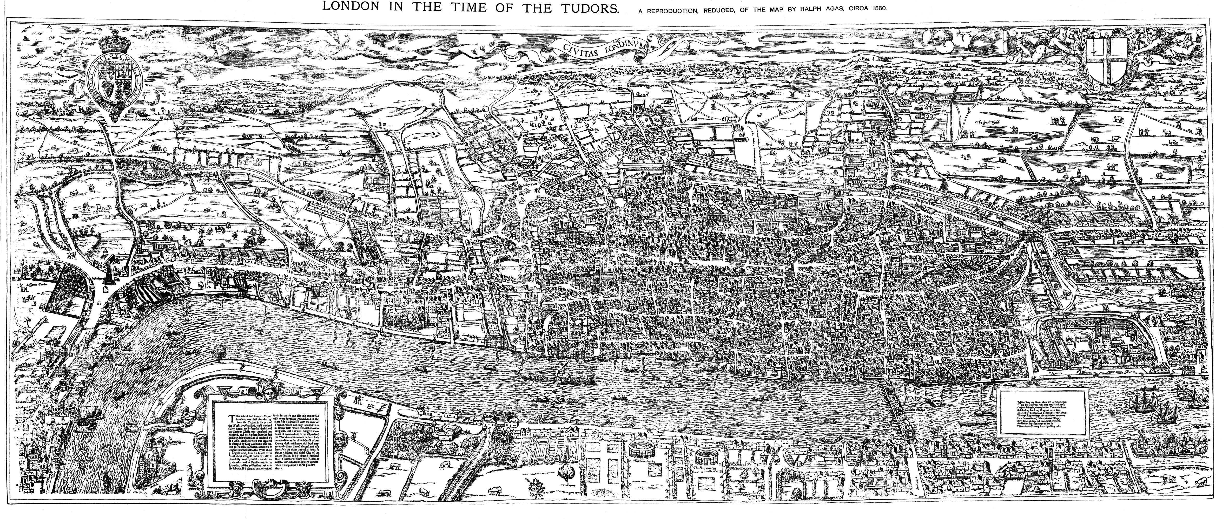 The earliest proper map (as opposed to panorama) of London known. Attributed to Ralph Agas, and probably surveyed between 1570 and 1605. The original was 6 foot 0.5 inches long by 2 feet 4.5 inches wide. This much reduced image is a scan of a copy of a lithograph of a copy, was itself badly repaired with sellotape and has had to be "restored"; so is hardly a truly faithful representation of the original, but few good copies exist and no other detailed public domain images are known.